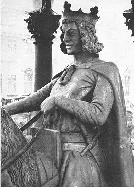 The Magdeburger Reiter: a tinted sandstone equestrian monument, c. 1240, traditionally intended as a portrait of Otto I (detail), Magdeburg.